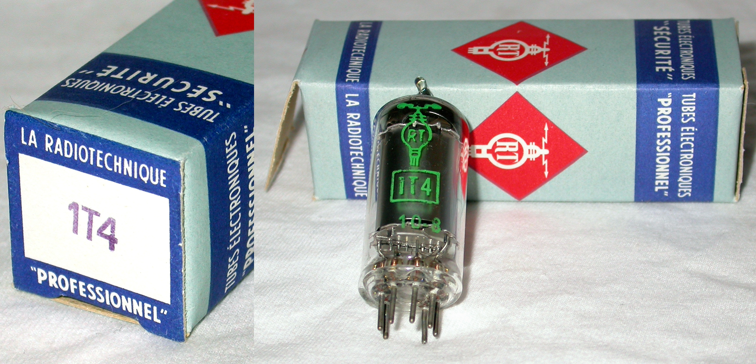 old, unused radio vacuum tube (1T4 = DF91), rf-pentode, with box.